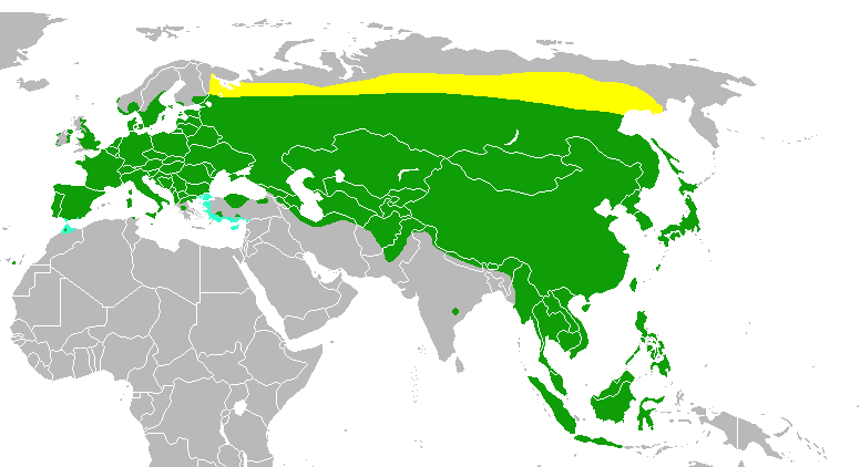 Eurasian range of Passer montanus